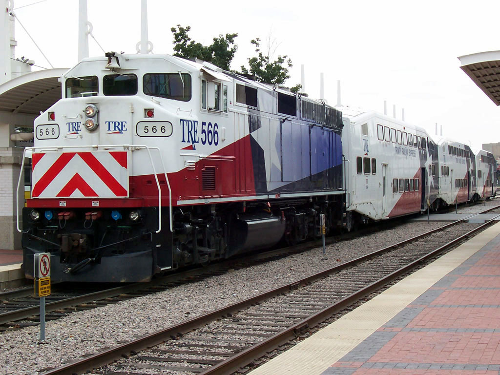 Trinity Railway Express train at Dallas Union Station.